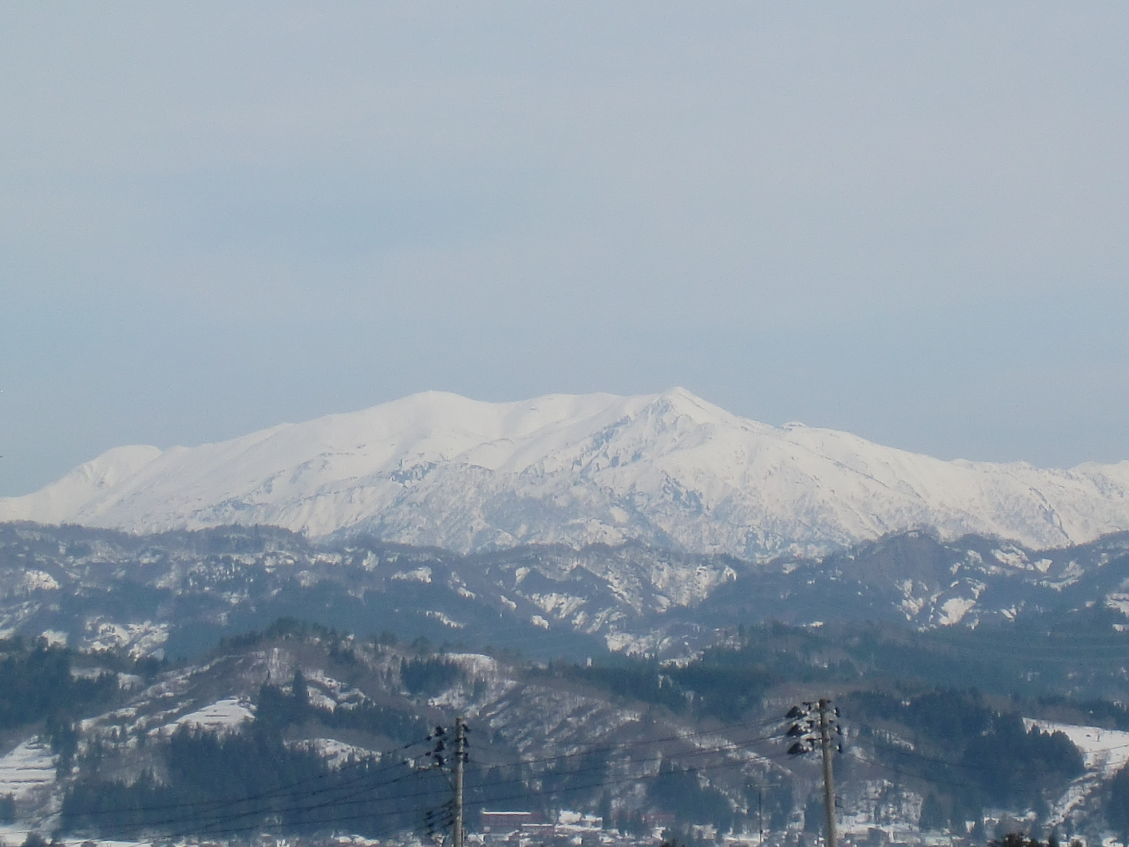 Mounts Kinjo, Warimeki, Makihata and Ushi seen from Seiryu-ji temple in Tokamachi City, Niigata Prefecture, Japan